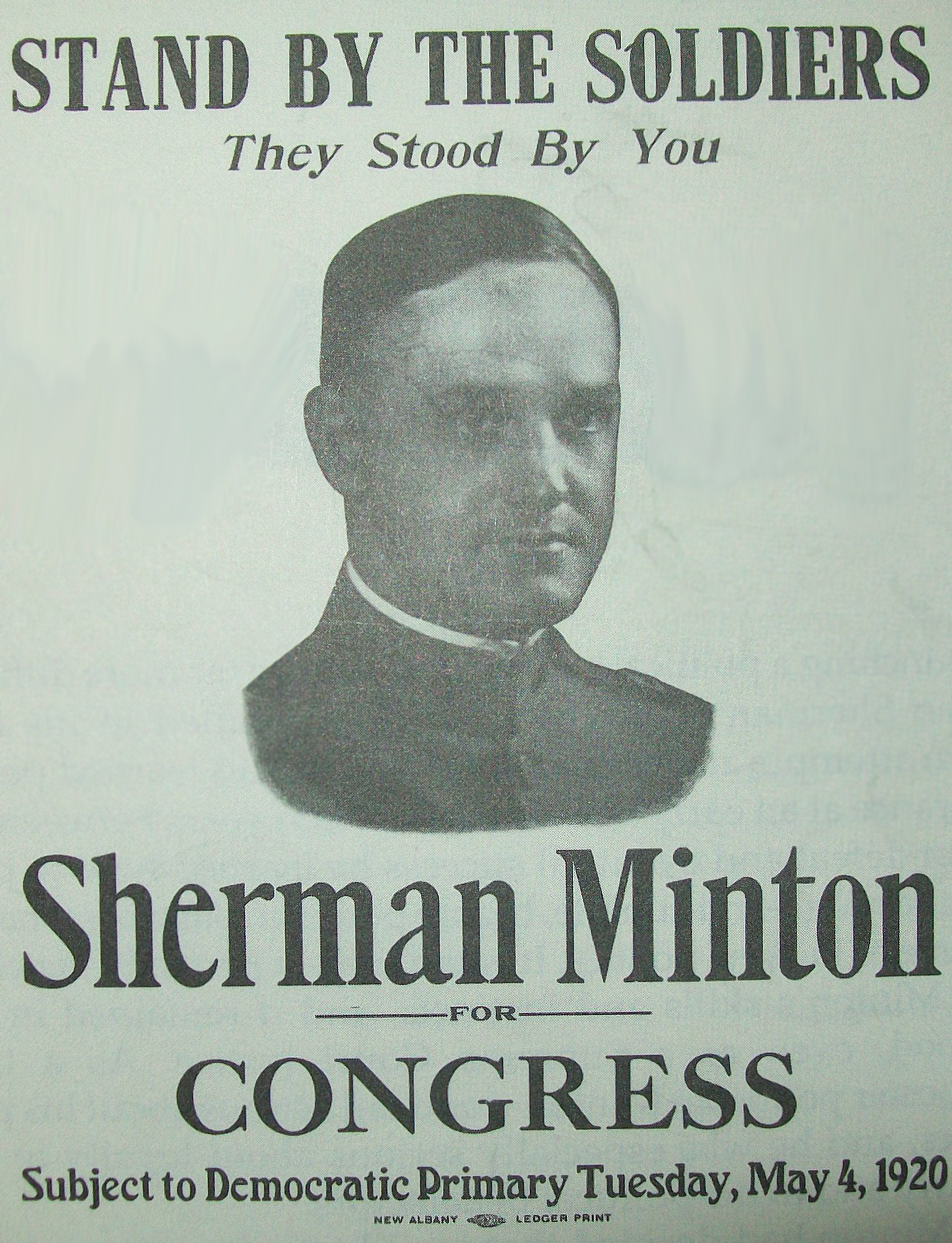 A Democrat primary campaign poster from 1920 for Sherman Minton for Congress.